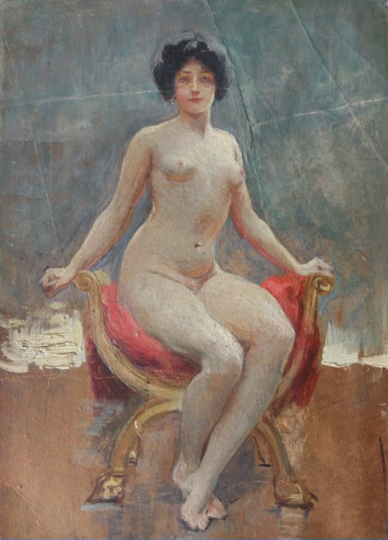 Anna Caria